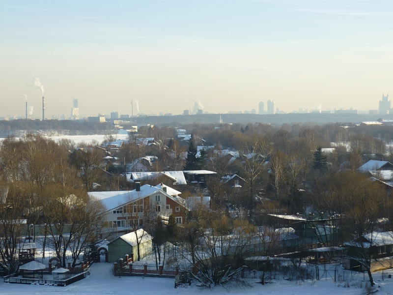 Rechnik settlement in Moscow.